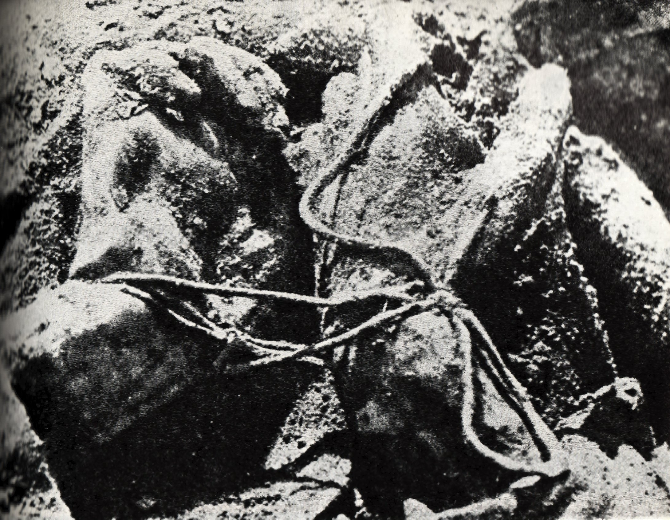 Photo from 1943 exhumation of mass grave of polish officers killed by NKVD in Katyń Forest in 1940.